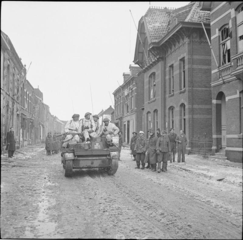 The British Army in North-west Europe 1944-45 Snow-suited troops of 131st Brigade, 7th Armoured Division, in universal carriers drive past German prisoners in Echt, 18 January 1945.